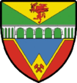 Coats of arms of Payerbach, Lower Austria